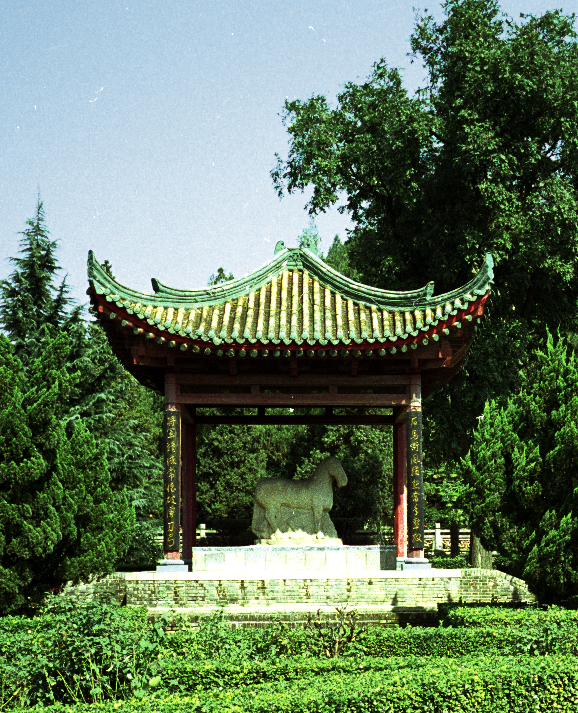 The statue of a horse trampling a Xiongnu barbarian, from the tomb of the Han Dynasty general Huo Qubing near Xi'an. This is one of the most famous Han Dynasty sculptures, about which Victor Segalen wrote in the early 20th century.